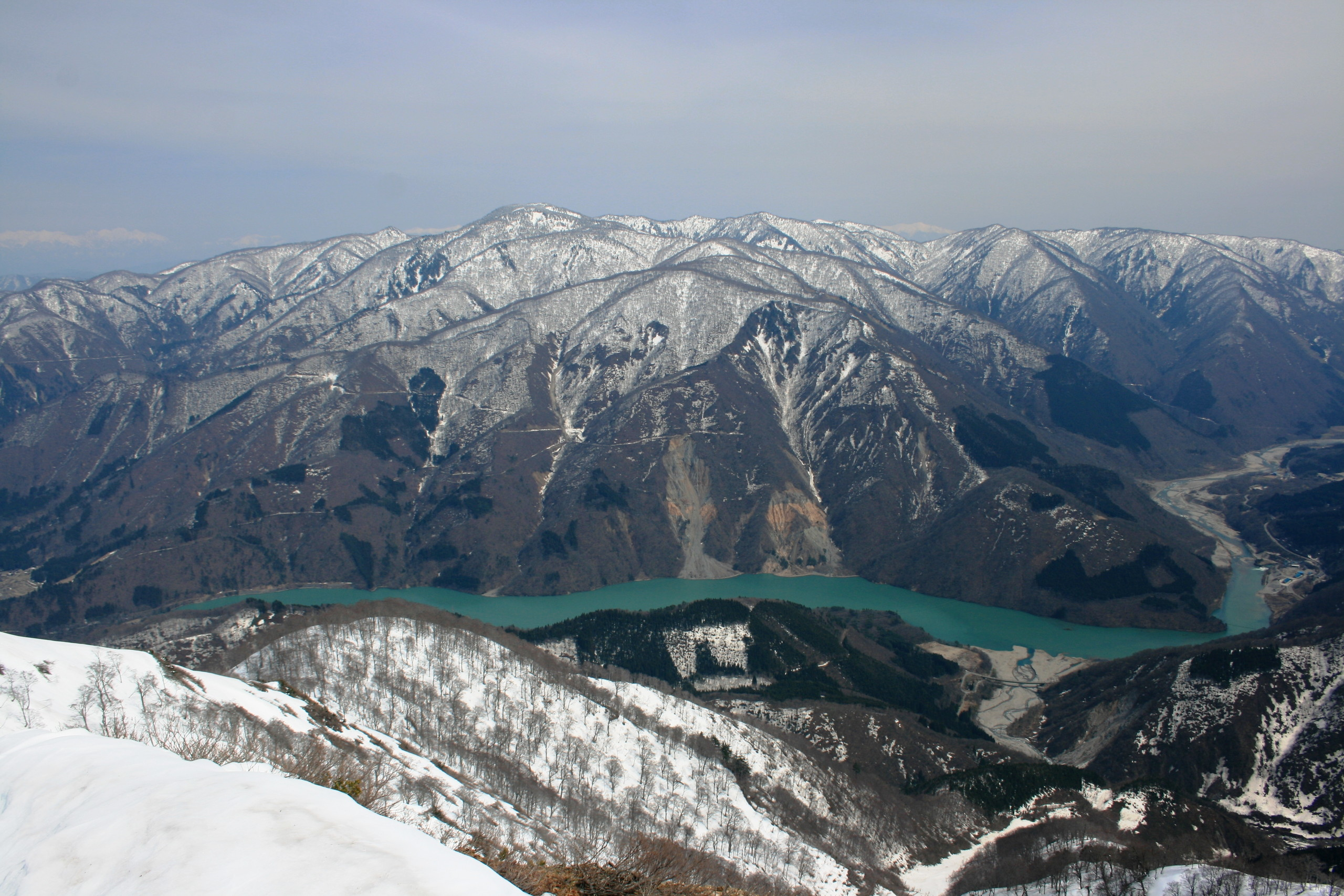 Mount Sarugababa and Shō River seen from Nodanisyoji